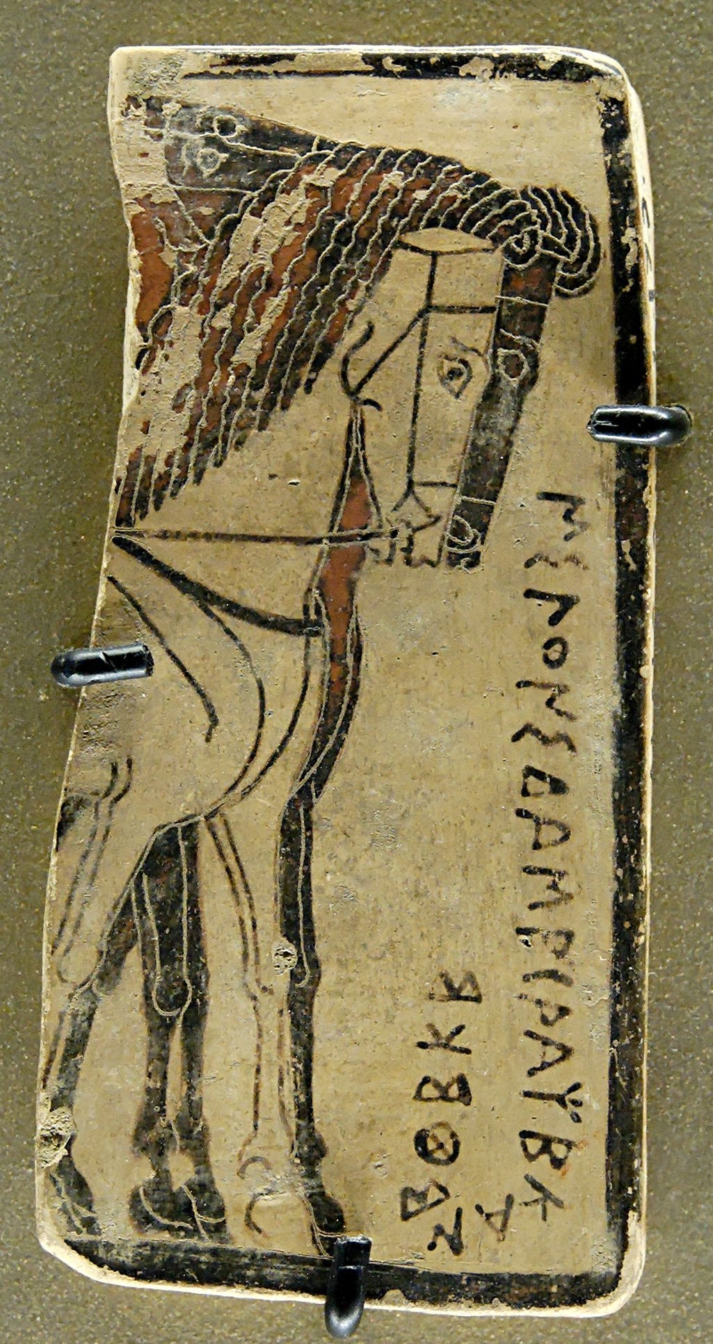 Horses harnessed to a quadriga (now lost). Corinthian black-figure plaque, ca. 575-550 BC. From Penteskouphia. [a second part of this pinax today is in the Antikensammlung Berlin]